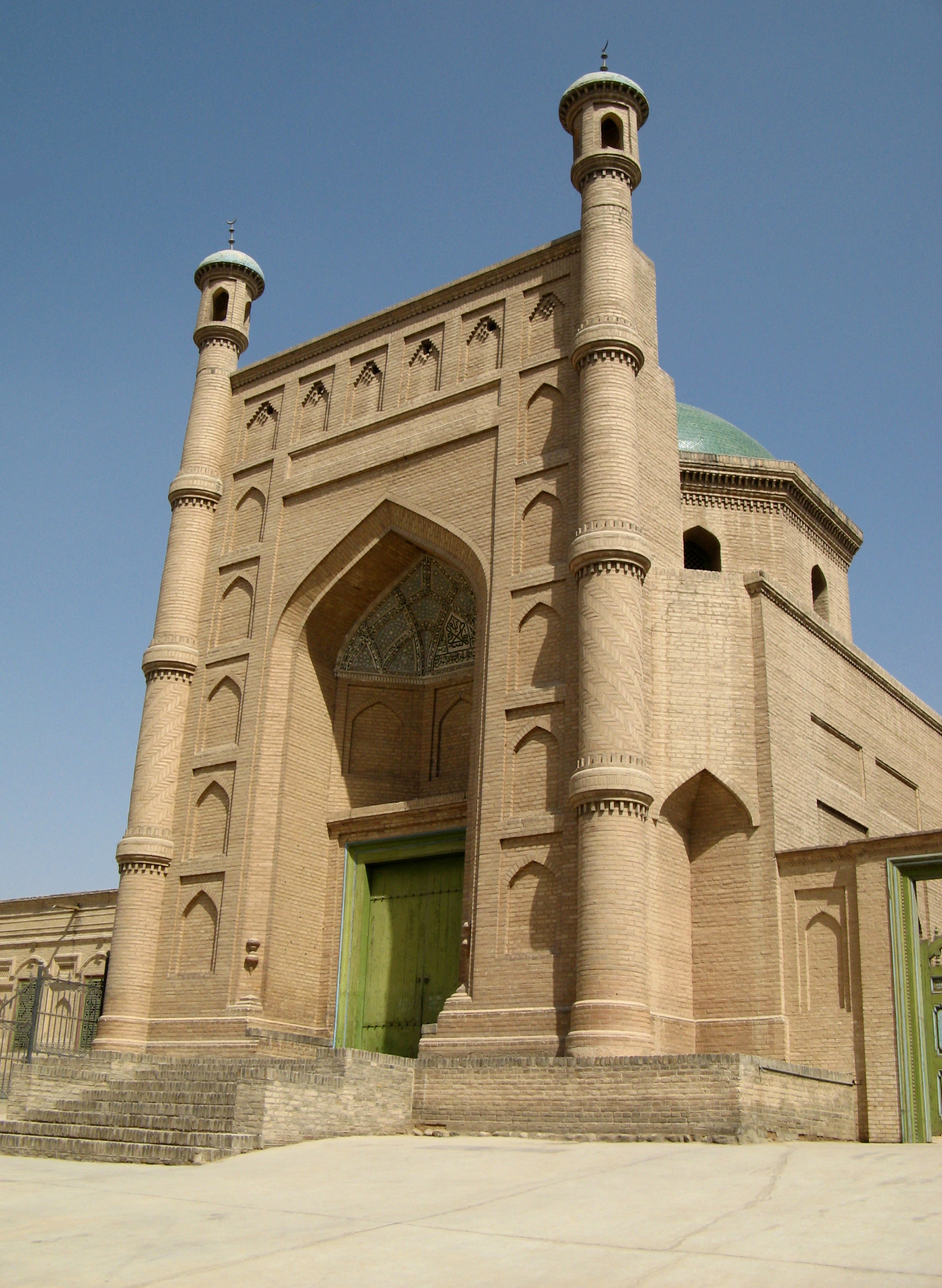 Kuqa Mosque. Kuqa (Kucha), Xinjiang The Kuqa mosque is modern, built in 1923 upon the site of an earlier structure. There is nothing "Chinese" about its architecture, which looks entirely to traditional Uighur Islamic models.